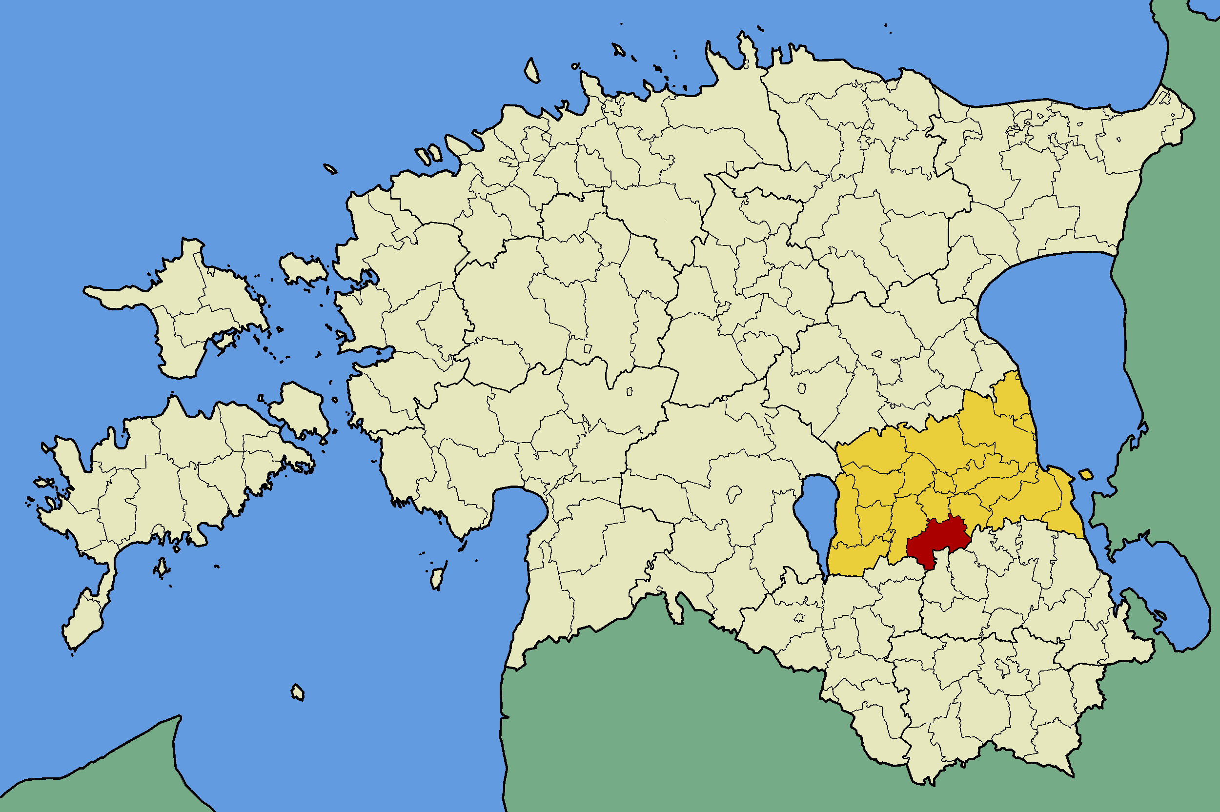 Map of Estonia with borders of municipalities (parishes). Tartu county and Kambja municipality emphasized.